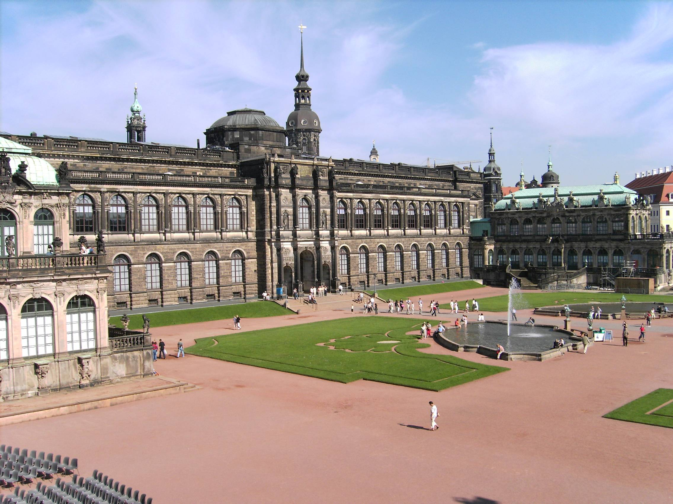 Dresdner Zwinger